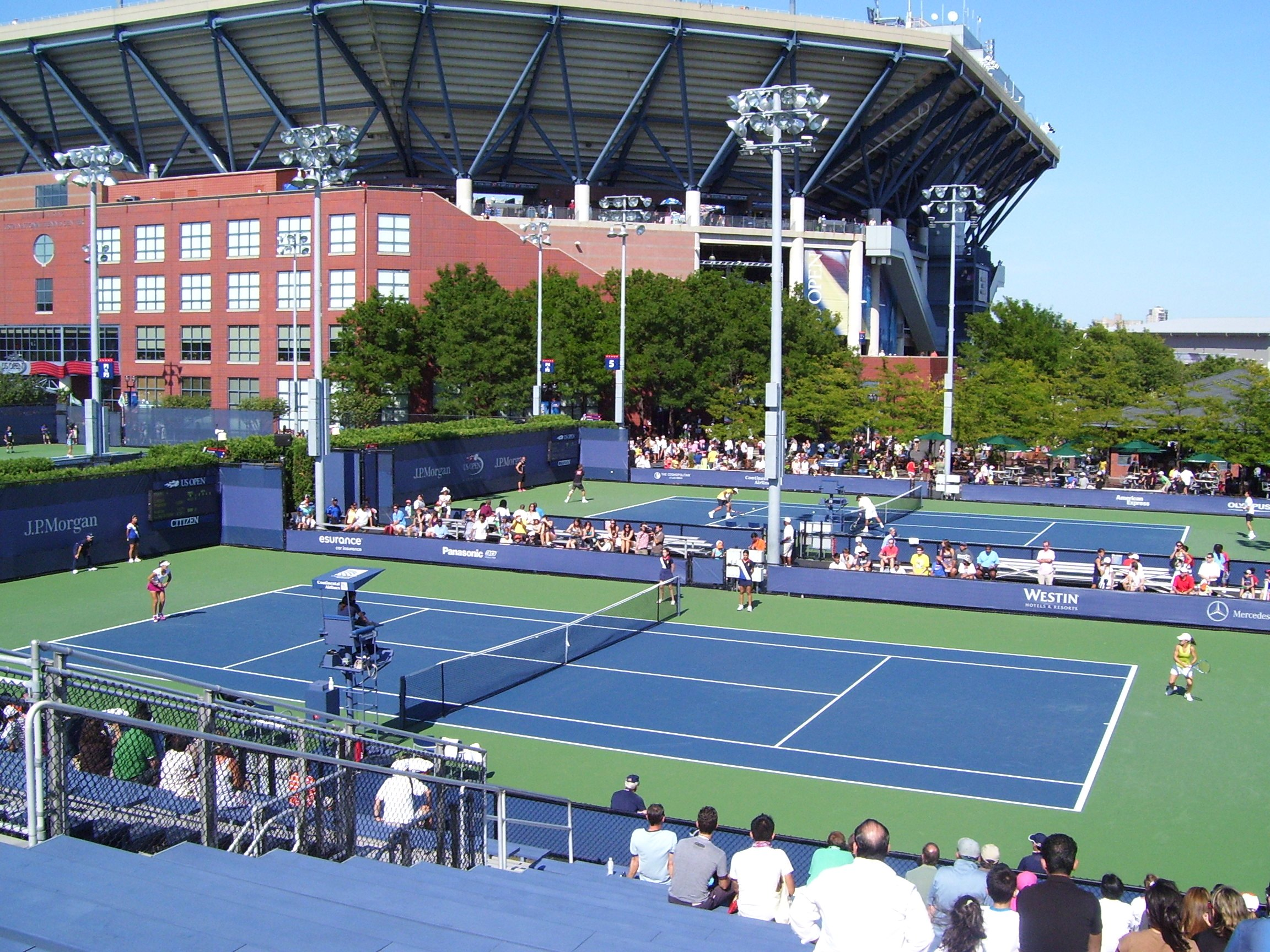 The USTA Billie Jean King National Tennis Center, showing Courts #6 and 5, part of the practice courts (on the left), and Arthur Ashe Stadium in the background, taken on Arthur Ashe Kid's Day in 2010. A U.S. Open Qualifying Tournament women's singles match (delayed by rain from an earlier date), is being played on Court 6 in the foreground: Laura Robson (GBR) on the left, and Nuria Llegostera Vives (17-ESP) on the right. Llegostera Vives won and advanced to the U.S. Open main draw.